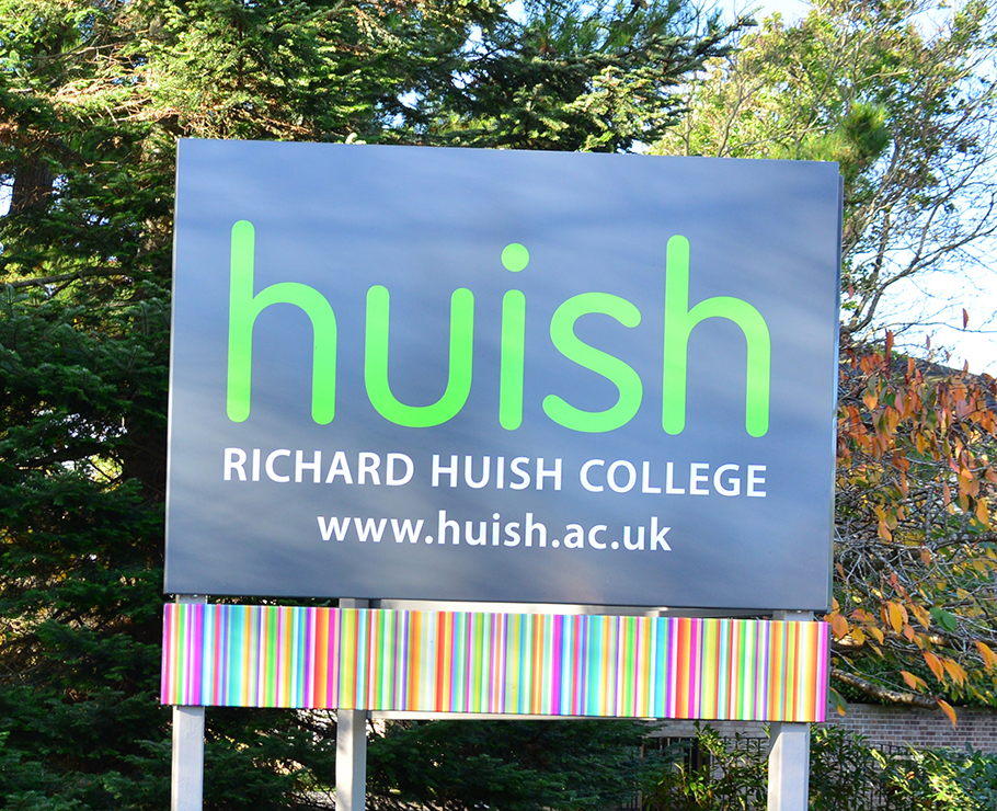 This is a photo of the new Richard Huish College front sign, outside Richard Huish College, Taunton.